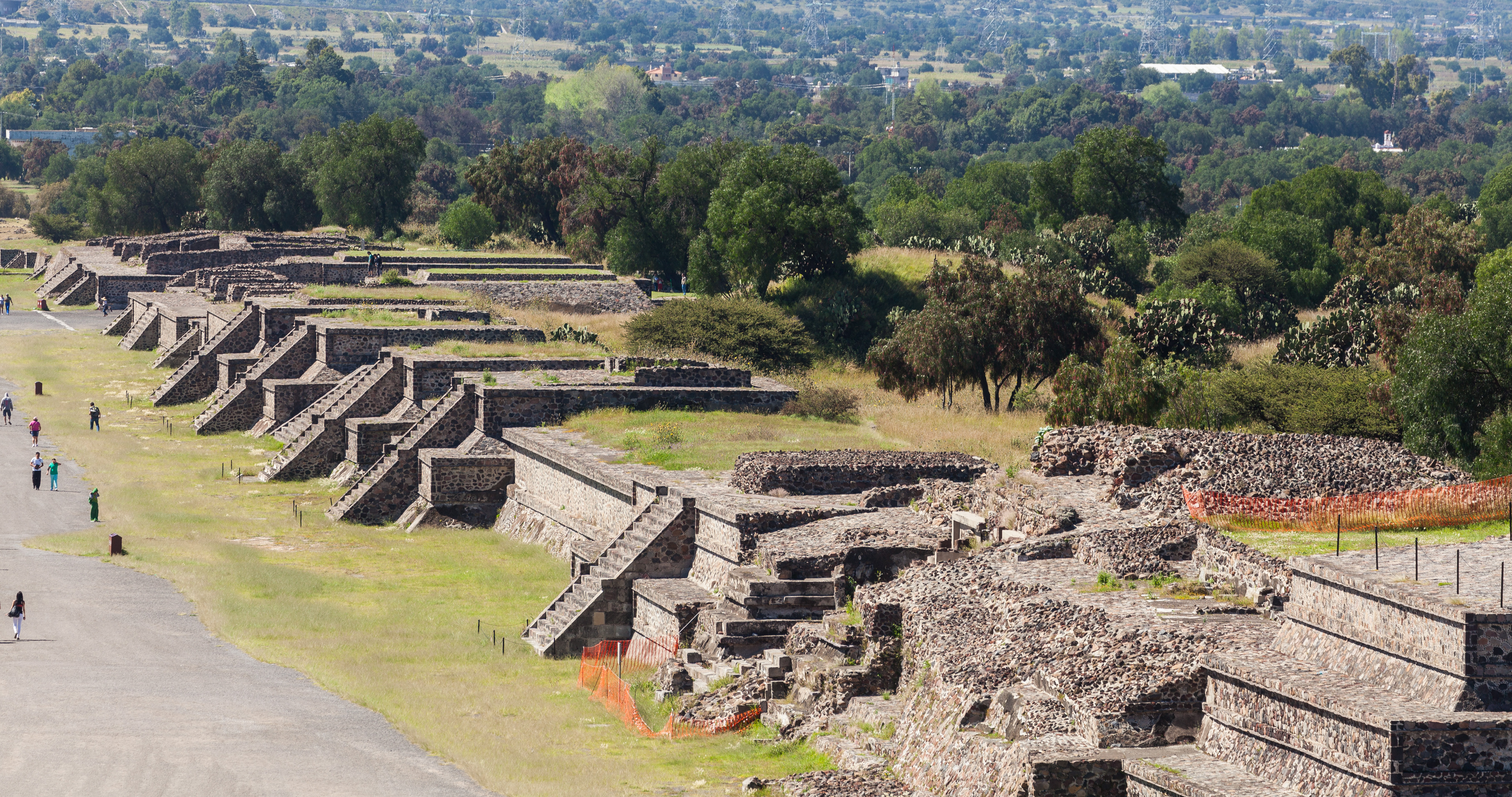 Avenue of the Dead, Teotihuacán, Mexico